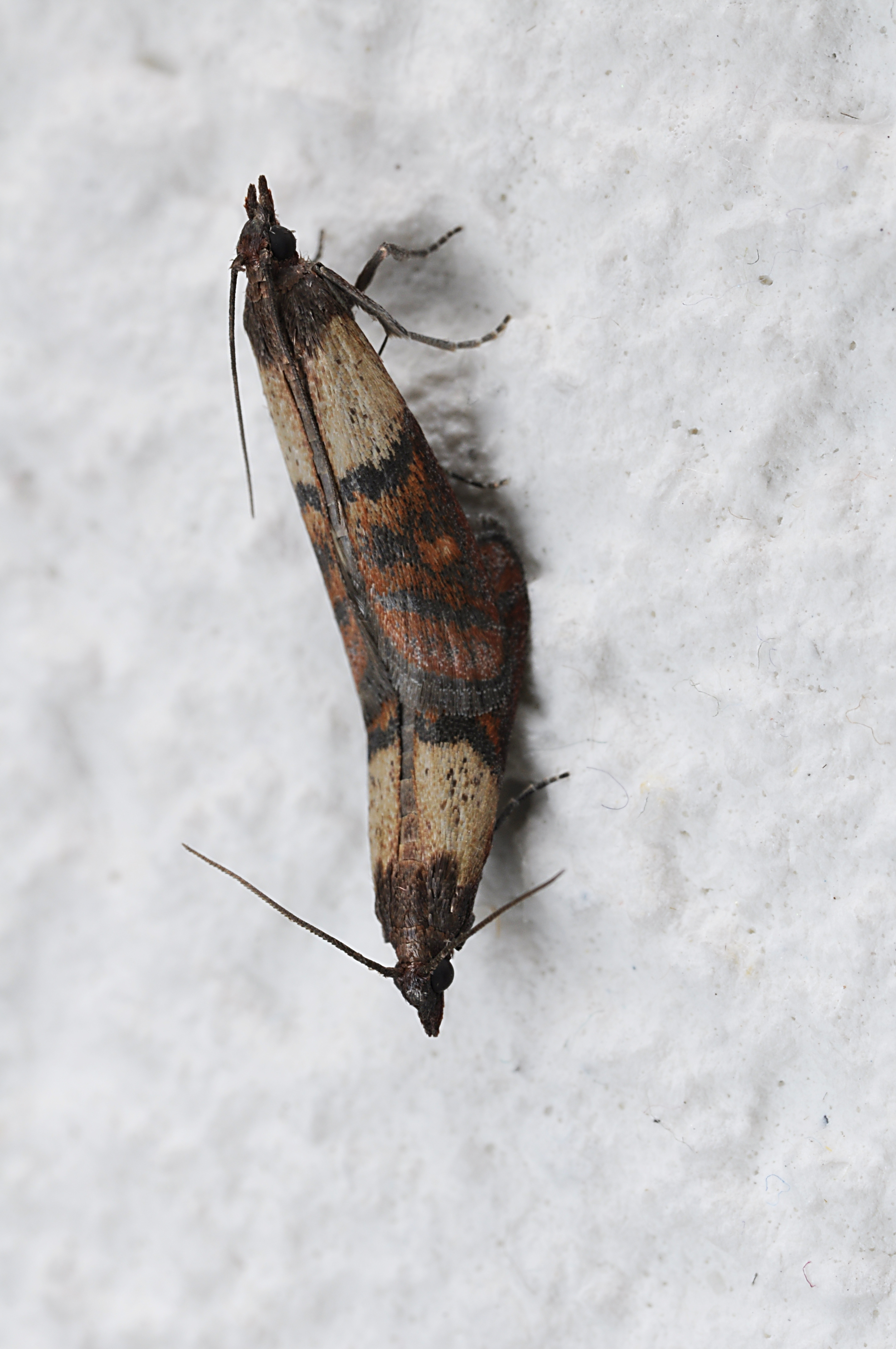 Plodia interpunctella during pairing at the end of June.